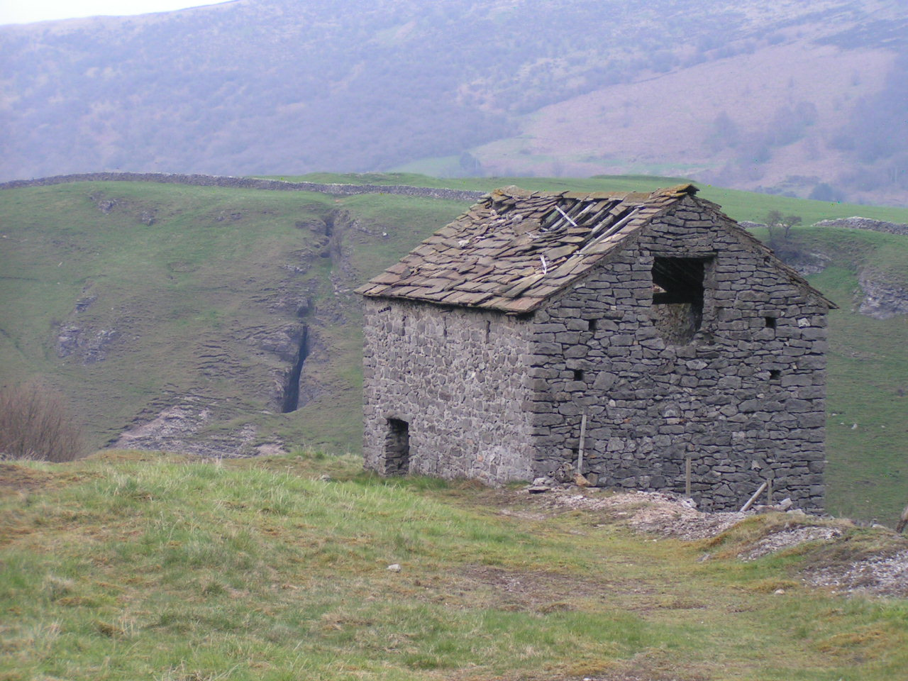 Bradwell Dale, Derbyshire